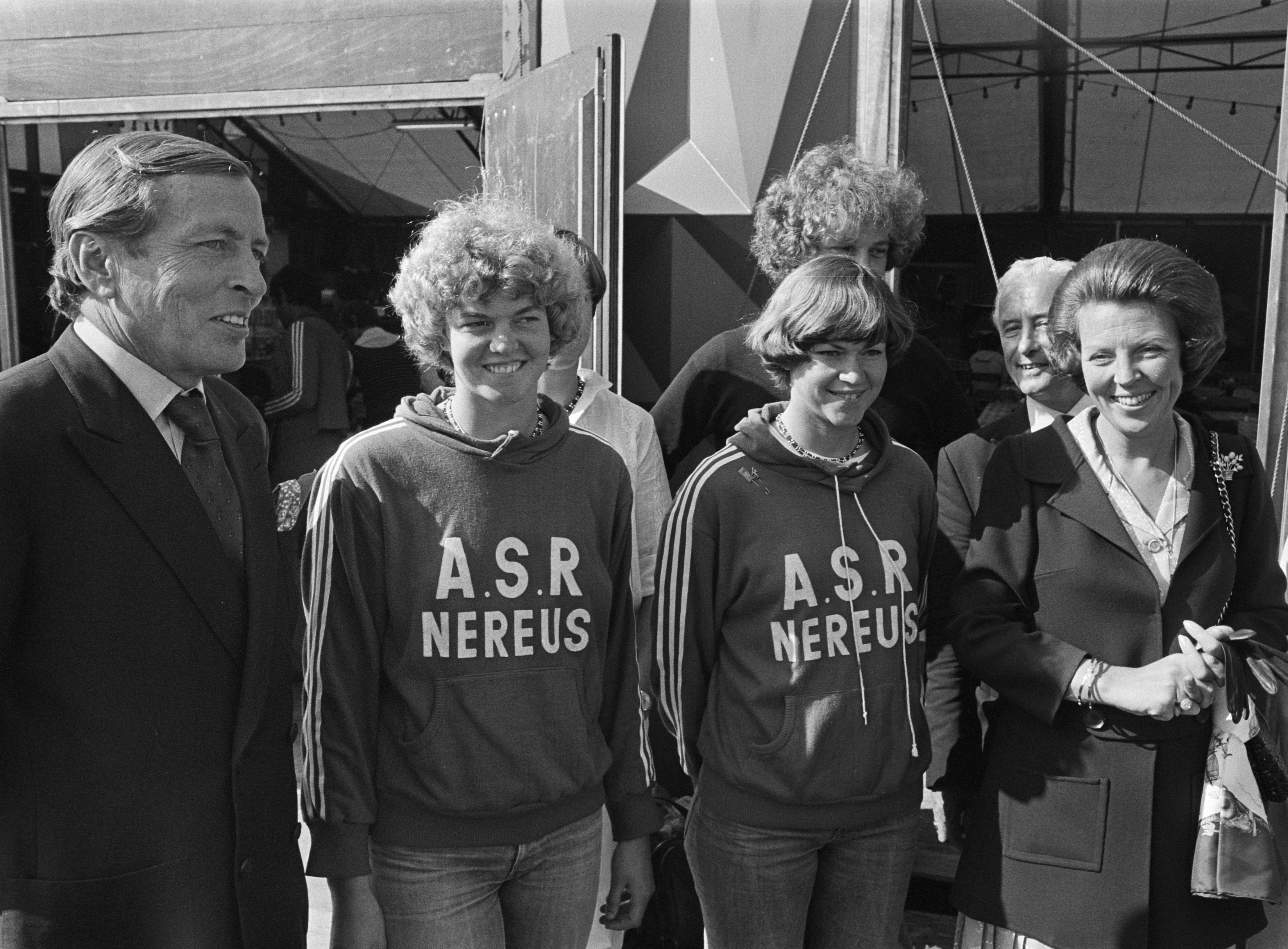 WK roeien Bosbaan; Prinses Beatrix en Prins Claus in gesprek met Joke Dierdorp (l) en Karin Abma die zilver wonnen